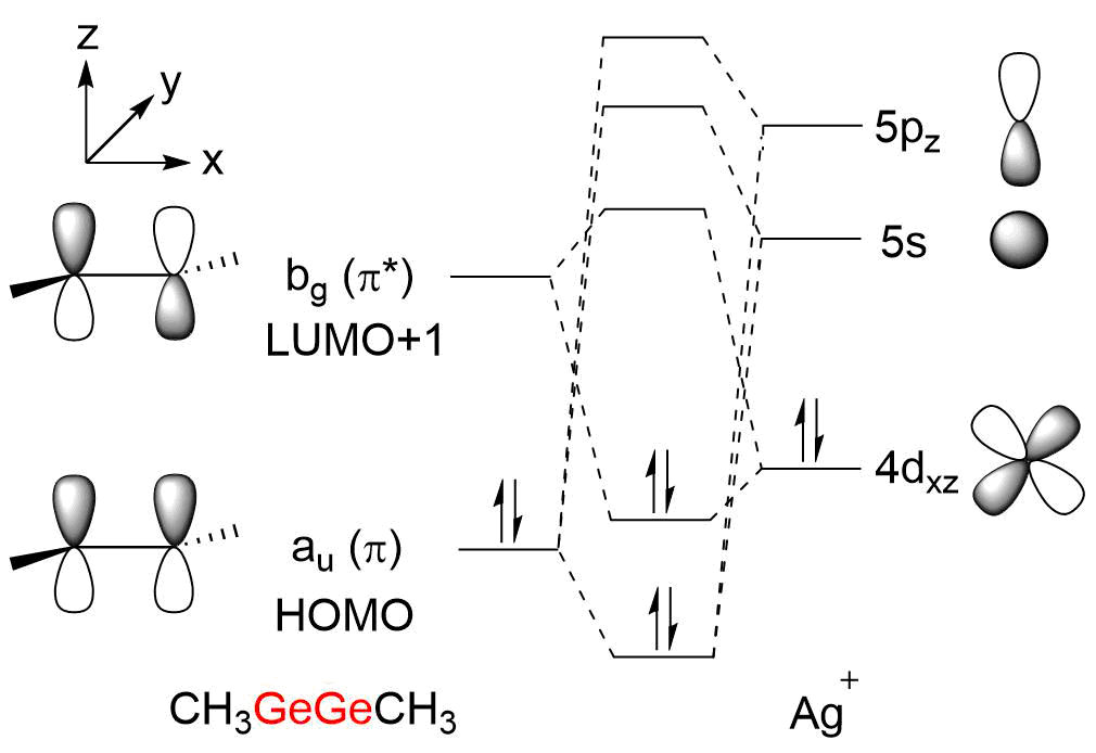 The orbital interactions between GeGe and Ag+